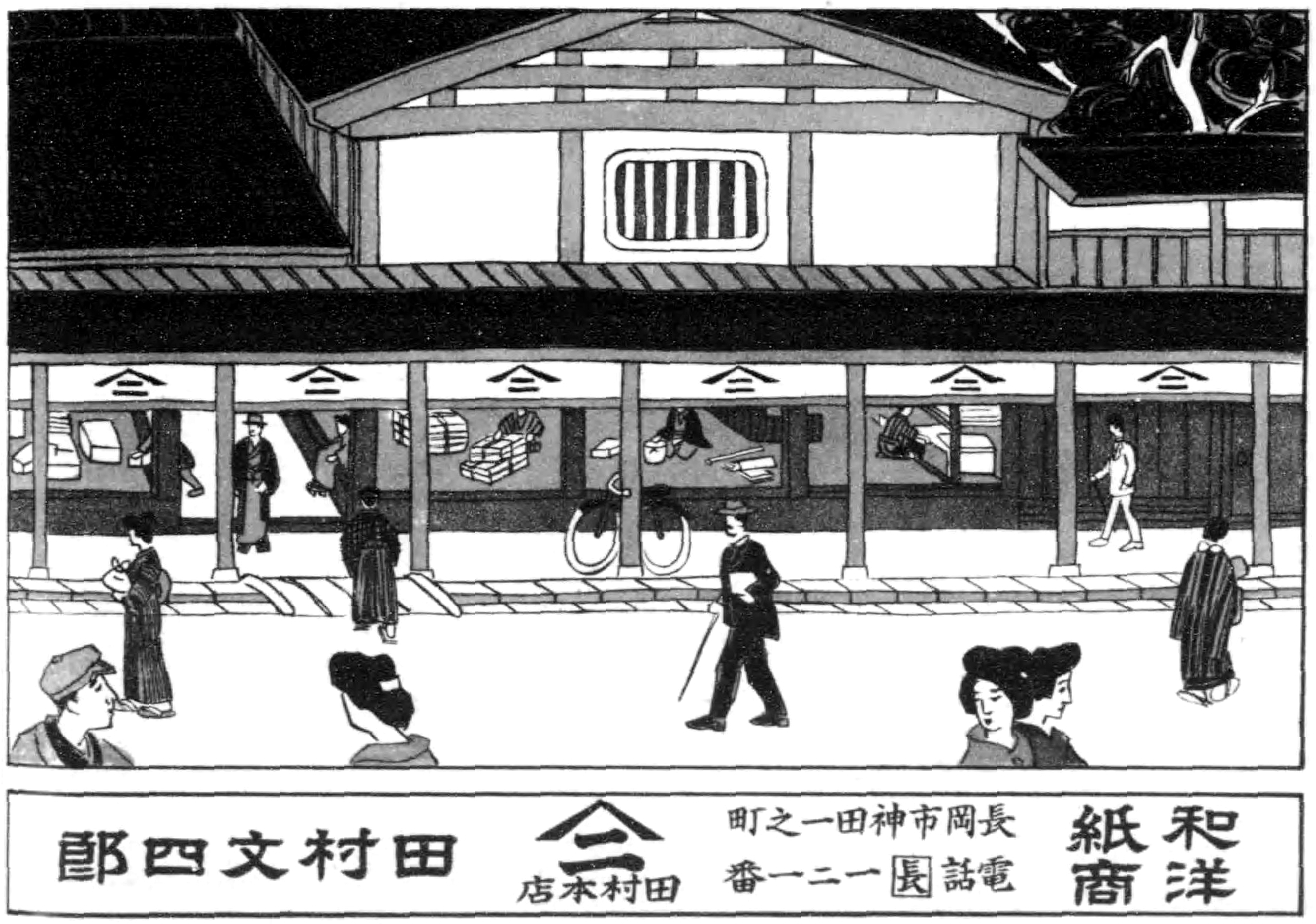 Tamura Honten (a paper dealer in Nagaoka, Niigata Prefecture, Japan) in Taishō era